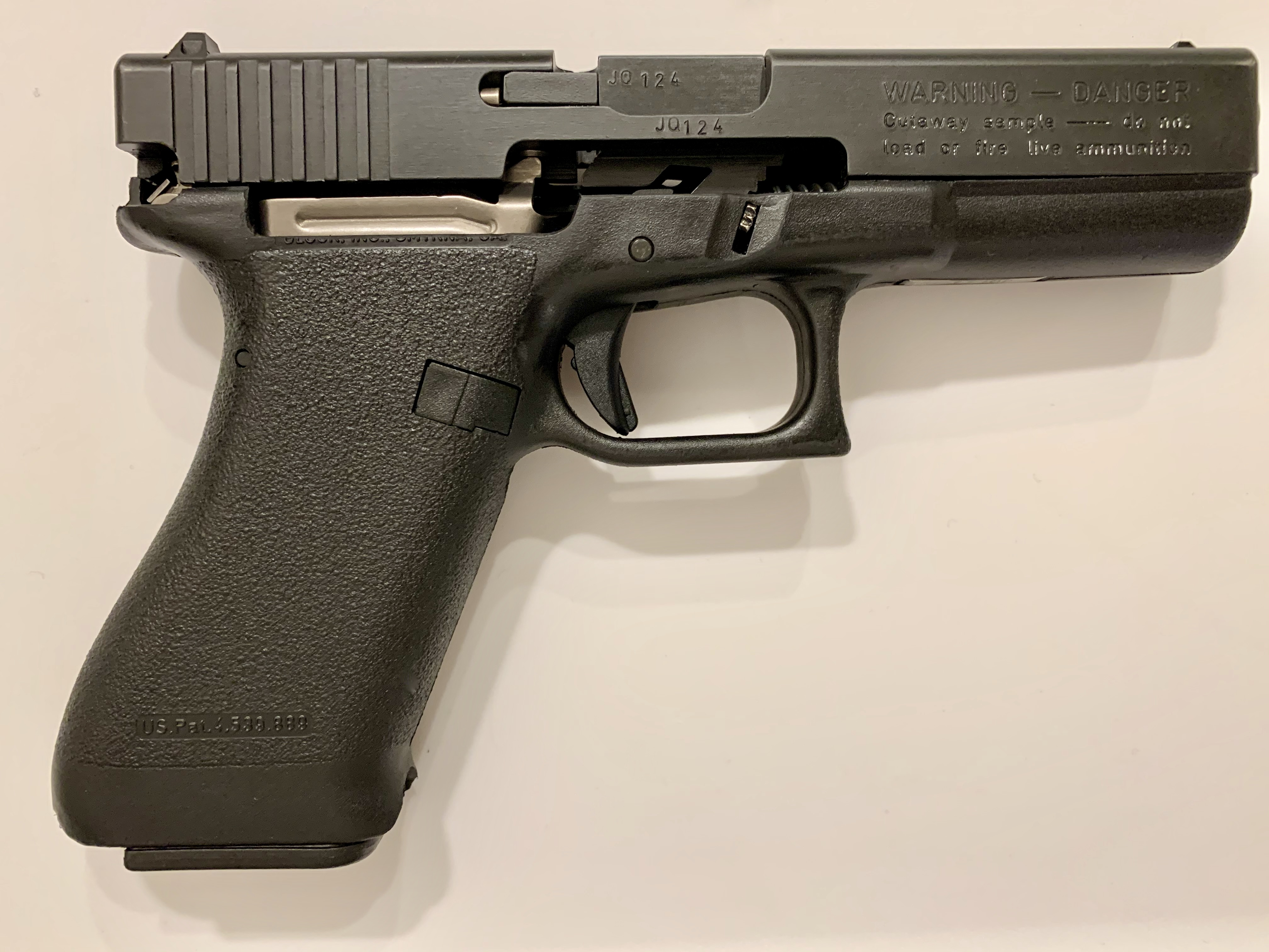 Glock 17 (Gen 1) Cutaway used for training.